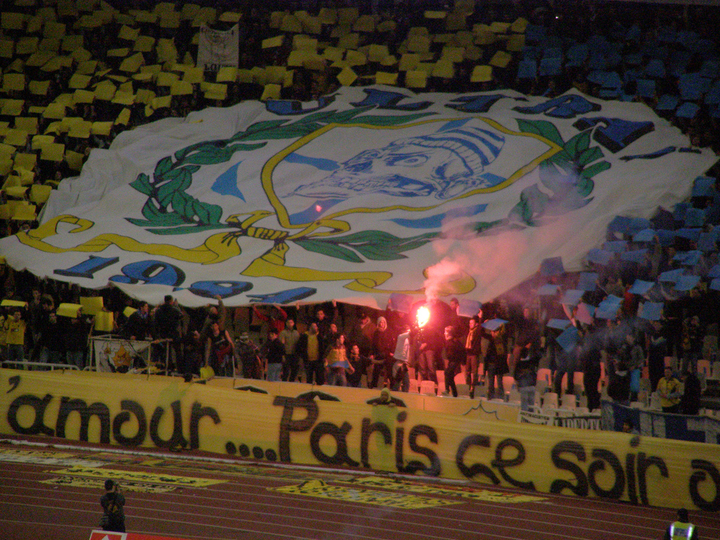 AEK fans during a match against PSG (2007-02-14)